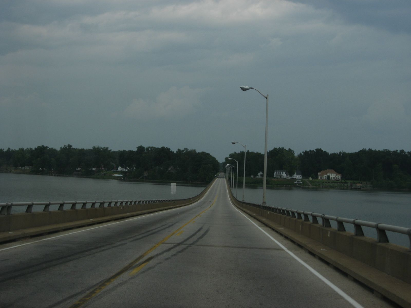 Entering Charles City County on VA Route 106.